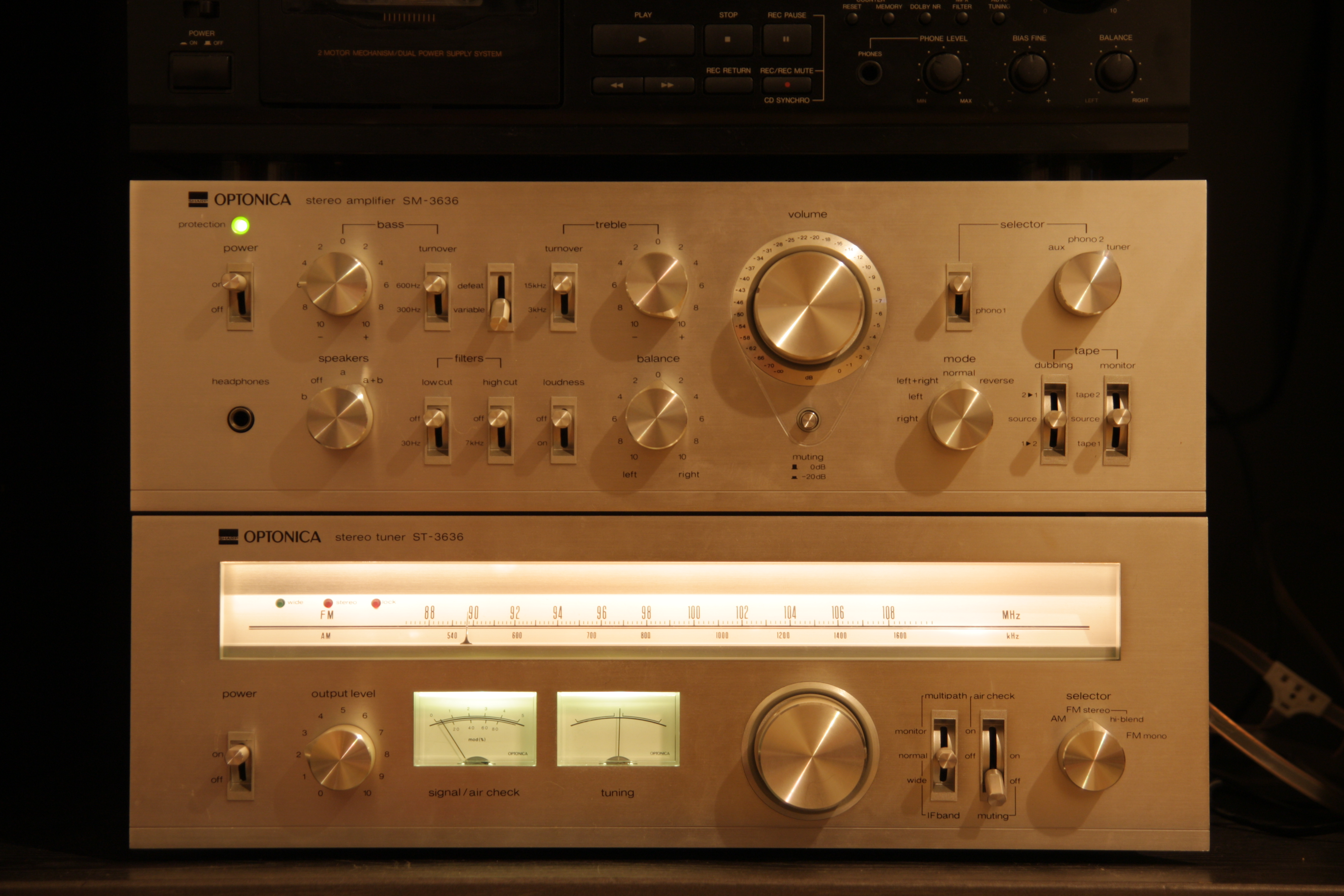 Sharp Optonica stereo amplifier SM-3636 and stereo tuner ST-3636 from 1978.